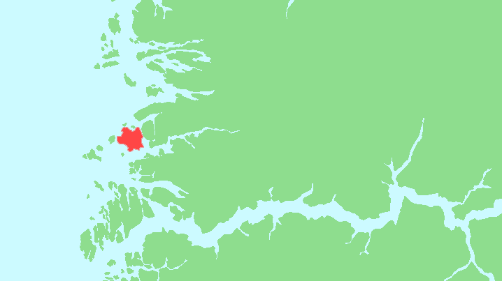 Locator map of Atløy, Sogn og Fjordane, Norway